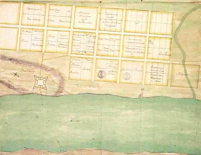 Plan de la ville et du Fort de La Mobile, 1702, Dépôt des Fortifications des Colonies, Louisiane, III 6 PFB 119. Plan for the settlement of La Mobile (near Twenty-Seven Mile Bluff in Mobile County, Alabama). The drawing was presumably prepared by Charles Levasseur in 1702. The map is now housed in the archives of the Centre des Archives d'Outre-mer in France.